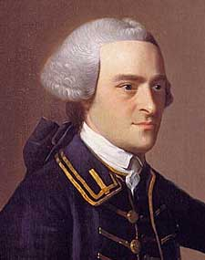 A portrait of John Hancock (23 January 1737 [O.S. 12 January 1736] – 8 October 1793), one of the signers of the United States Declaration of Independence.